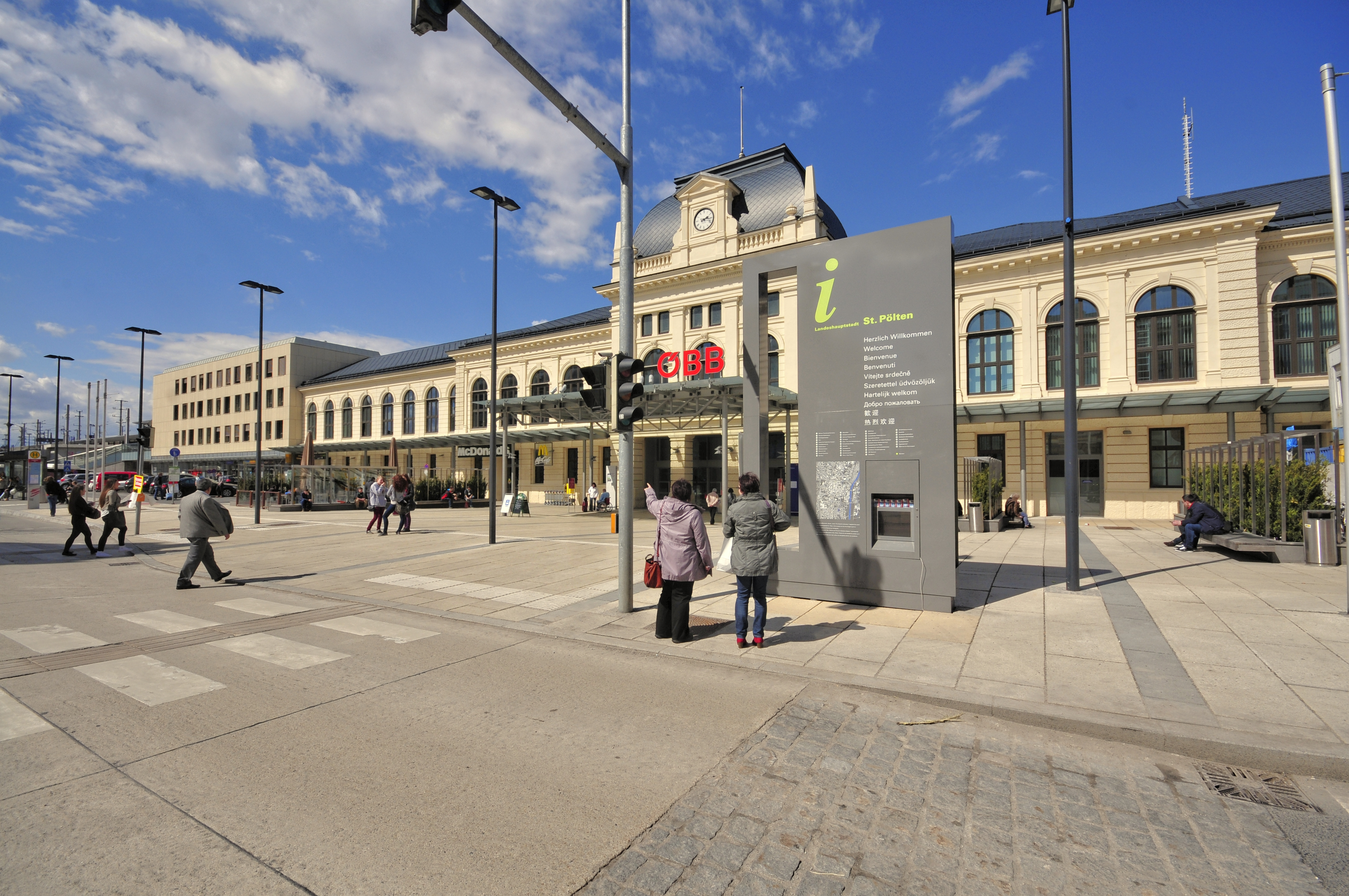 St. Pölten, Austria, Main Train Station Fotowanderung St. Pölten 13. April 2013 in St. Pölten, Niederösterreich 50mm • Allgemeines • Bahnhof • Domplatz • Fahrräder • Landhausviertel • Rathausplatz